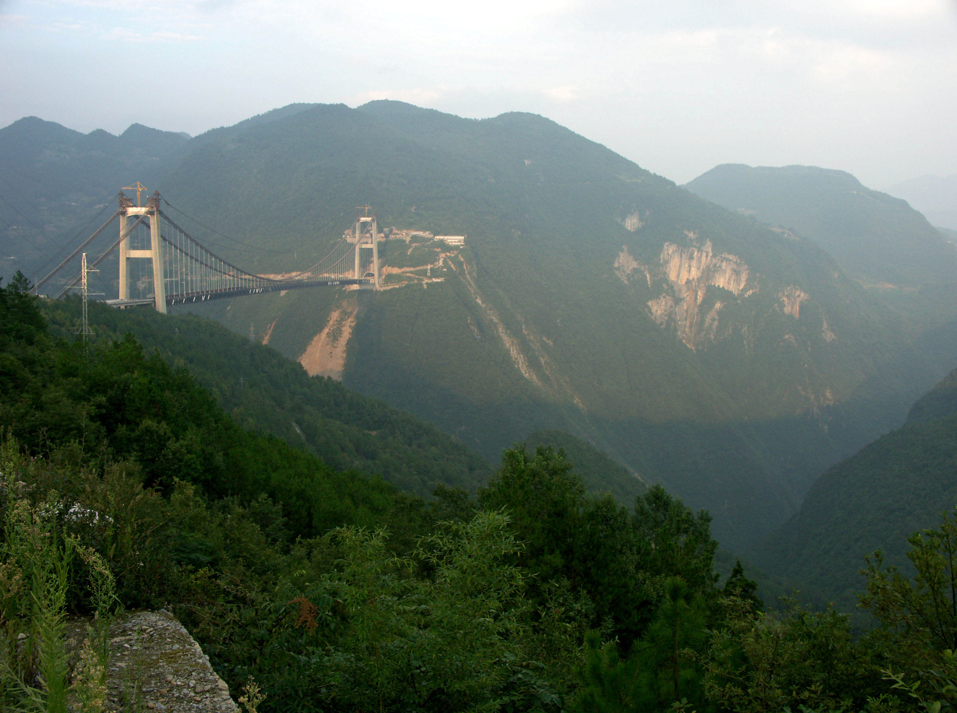 Siduhe Bridge looking east towards the Siduhe tunnel